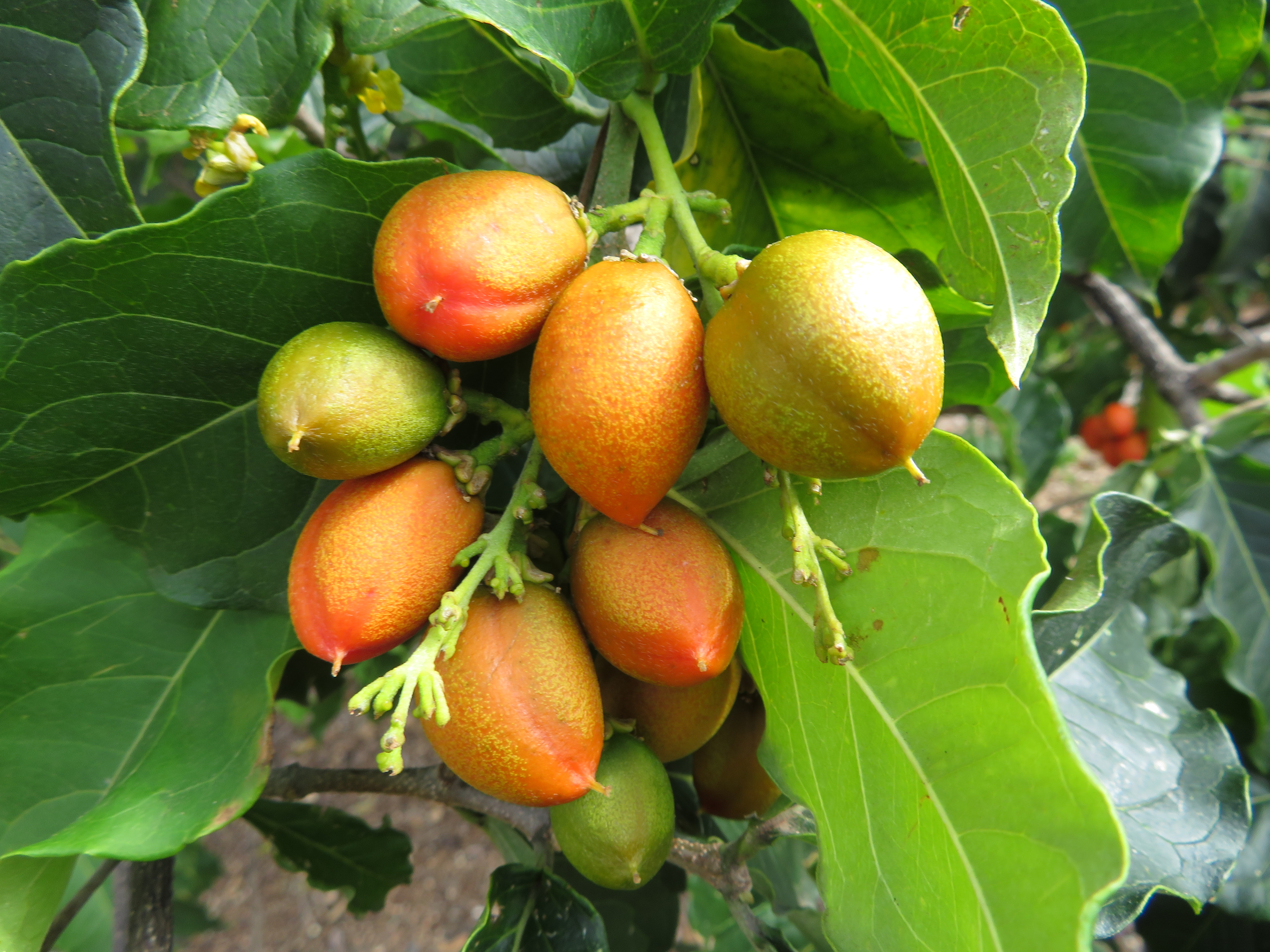 Bunchosia argentea (Peanut butter fruit) Fruit leaves at CTAHR Urban Garden Center Pearl City, Oahu, Hawaii. September 13, 2017 #170913-0178 - Image Use Policy